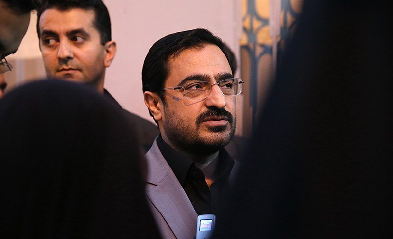 Saeed Mortazavi in Judicial Complex for Government Employees' Violations. (2013)